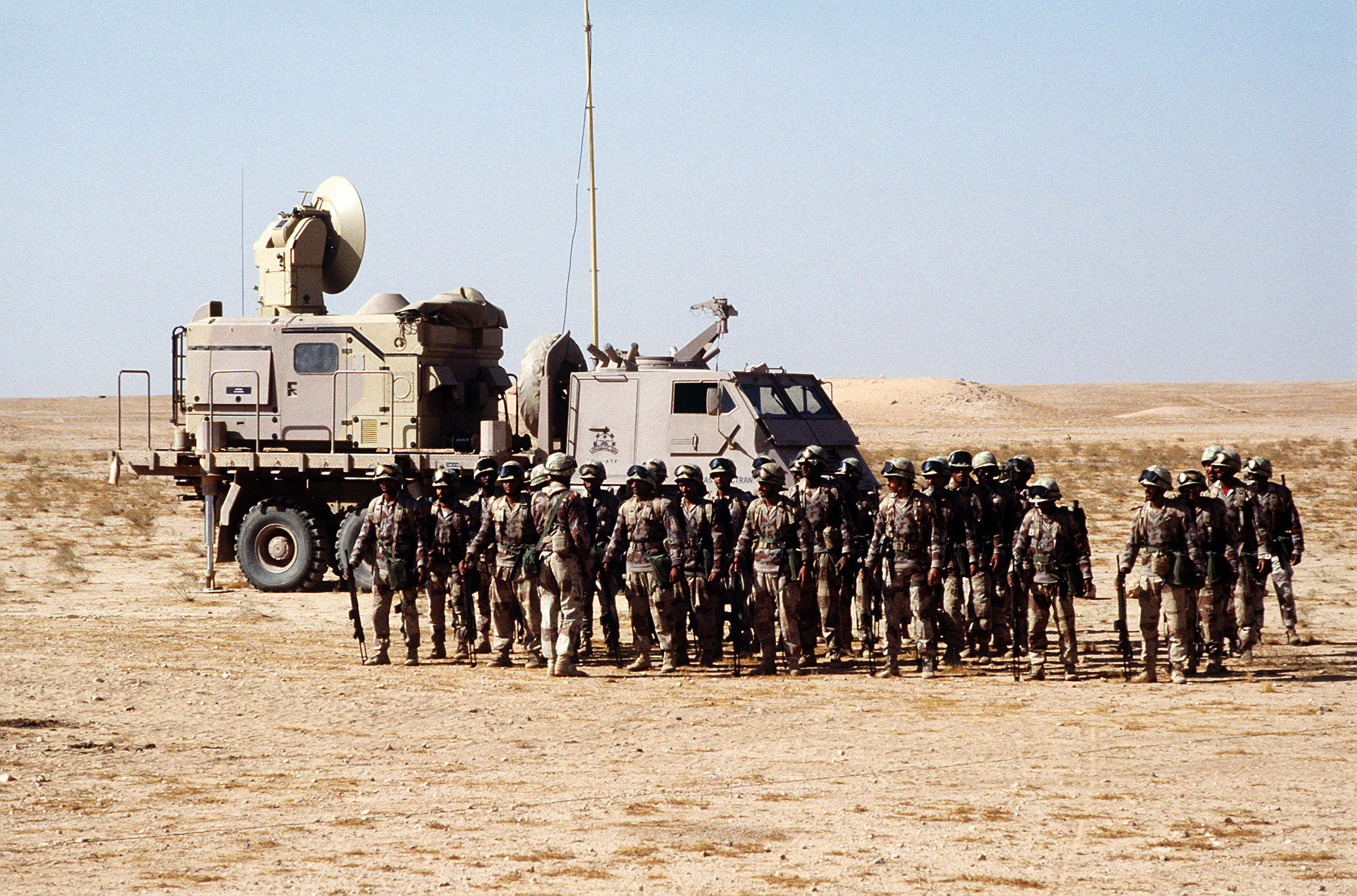 Saudi Arabian soldiers stand in formation prior to the arrival of visiting dignitaries during Operation Desert Shield. The soldiers are standing near a TECTRAN AV-UCF fire control vehicle for the Brazilian-made Avibras ASTROS-II rocket launcher.